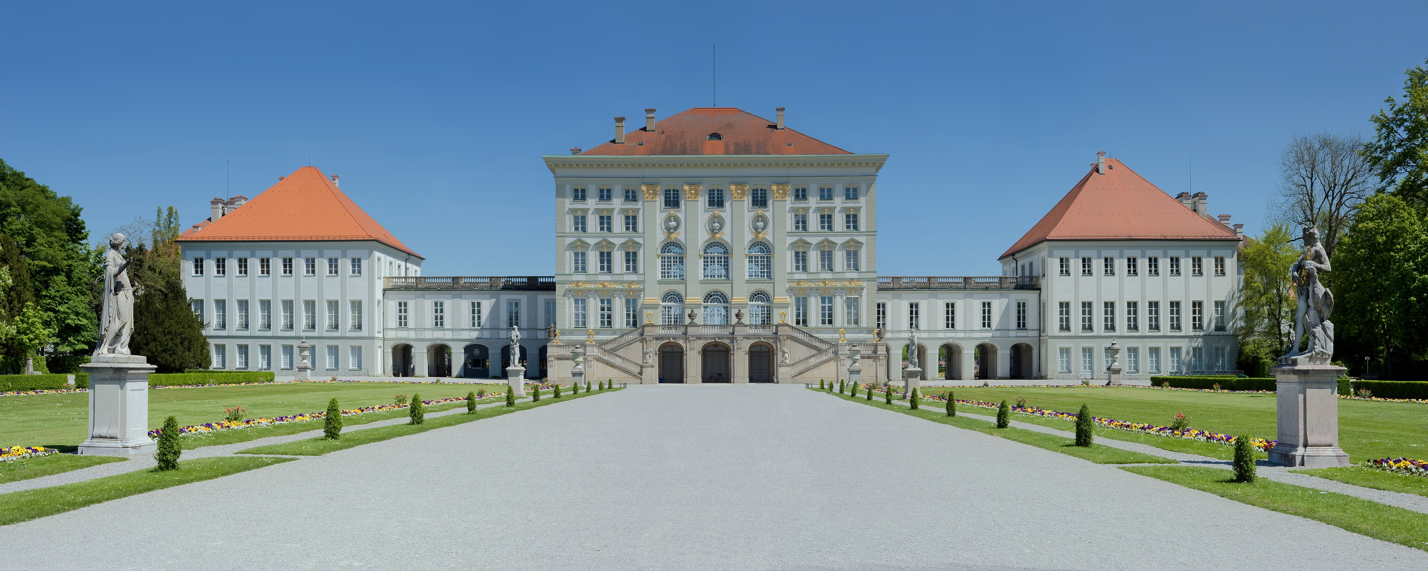 The Nymphenburg Palace (German: Schloss Nymphenburg) is a Baroque palace in Munich, Bavaria, Germany. The palace was the summer residence of the rulers of Bavaria.